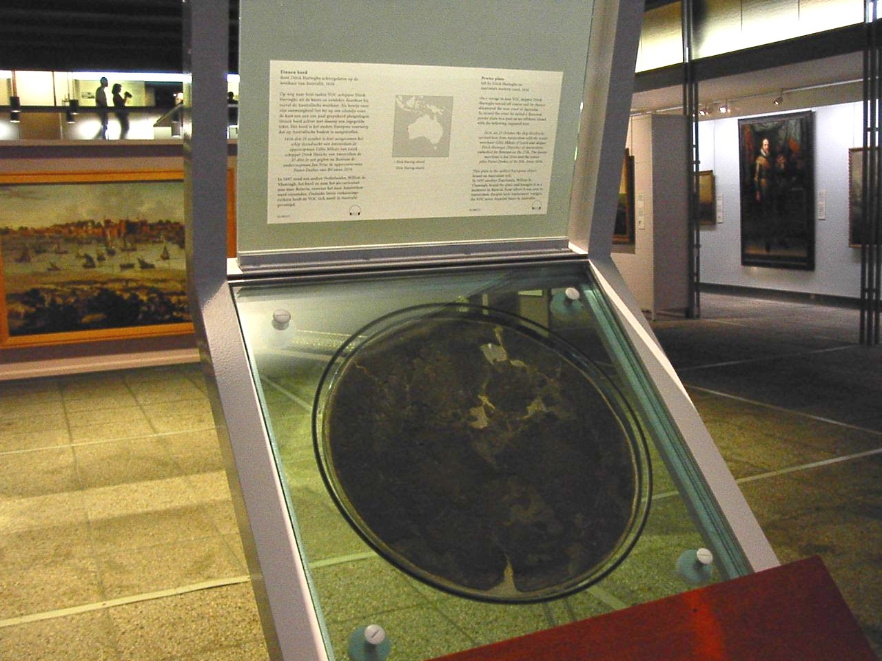 photo by Adam Carr - Hartog Plate or Dirk Hartog's Plate is either of two plates, although primarily the first, which were left on Dirk Hartog Island during a period of European exploration of the western coast of Australia prior to European settlement there. The first plate, left by Dutch explorer Dirk Hartog is the oldest-known artifact of European exploration in Australia still existent and is therefore evidence of the first confirmed visit by Europeans.